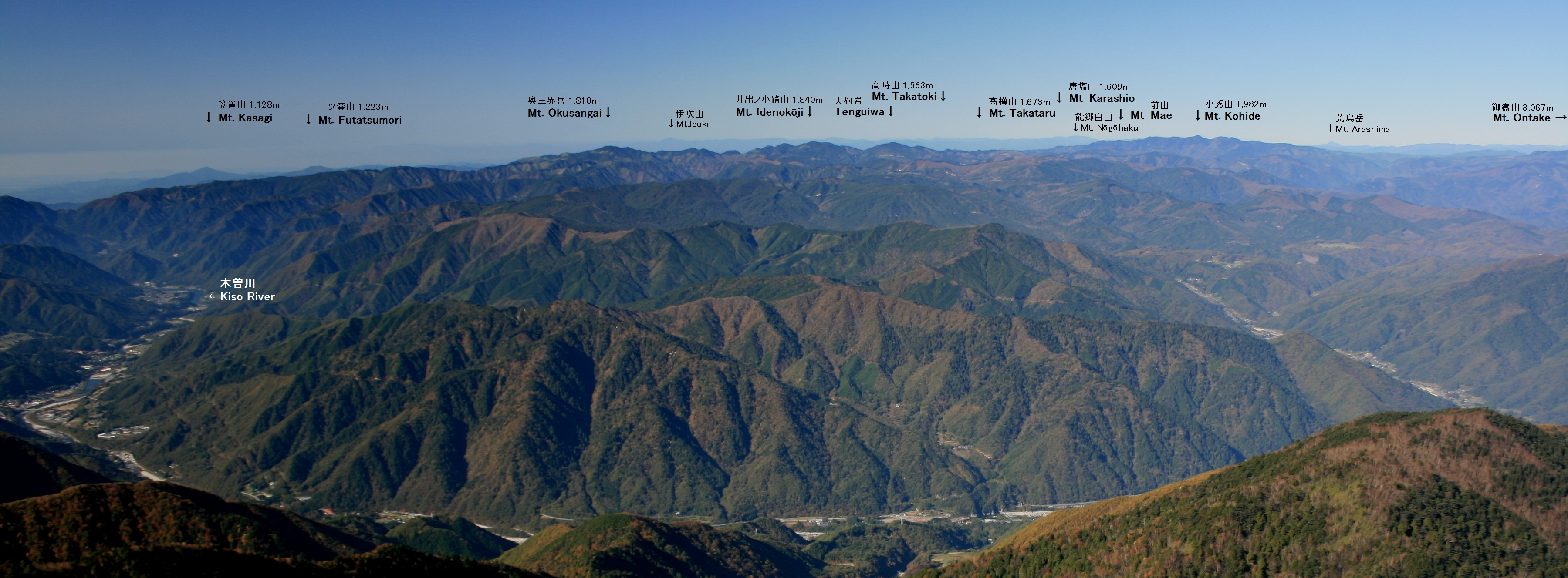 Mount Okusangai and Kohide from Mount Kazakoshi in Nagano Prefecture, Japan.